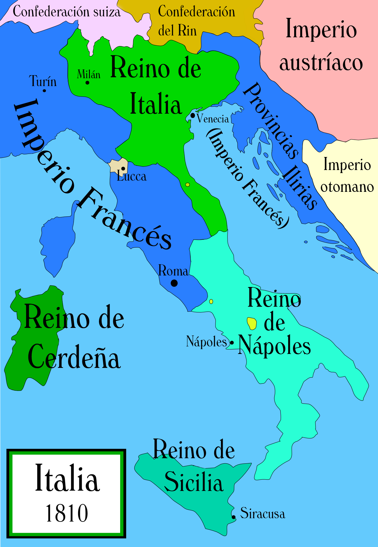 Political map of Italy in the years around 1810, during the Napoleonic era, created by MapMaster. This is a companion map to Image:Italy 1796.png and Image:Italy 1494_v2.png. Mapa político de Italia alrededor del año 1810, durante la era Napoleónica, creado por MapMaster (traducido por Aibdescalzo). Mapas relacionados: Image:Italy 1796.png y Image:Italy 1494_v2.png. Bjorklund, Oddvar; Holmboe, Haakon; Rohr, Anders (1970) Historical Atlas of the World, Barnes & Noble, NY, SBN: 389-00253-4. *Other maps, including Image:1french-empire1811.jpg from the 1912 Cambridge Modern History Atlas.